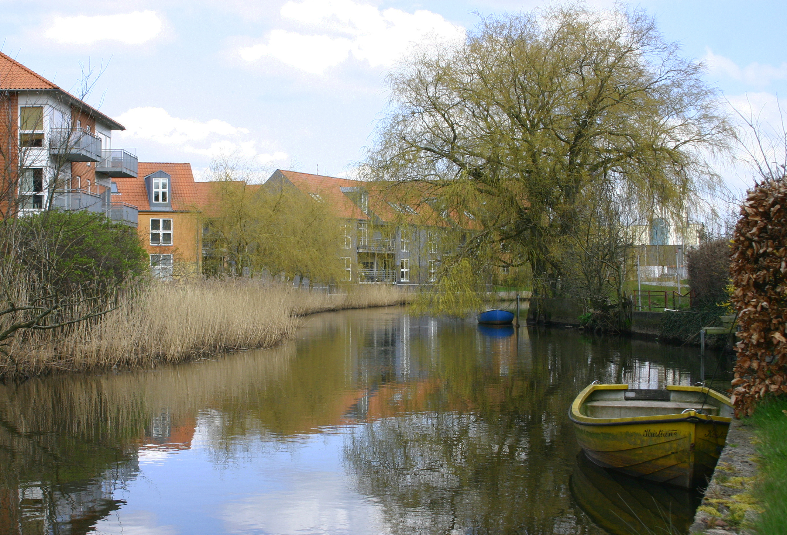 Stream in the center of Kolding,Denmark.